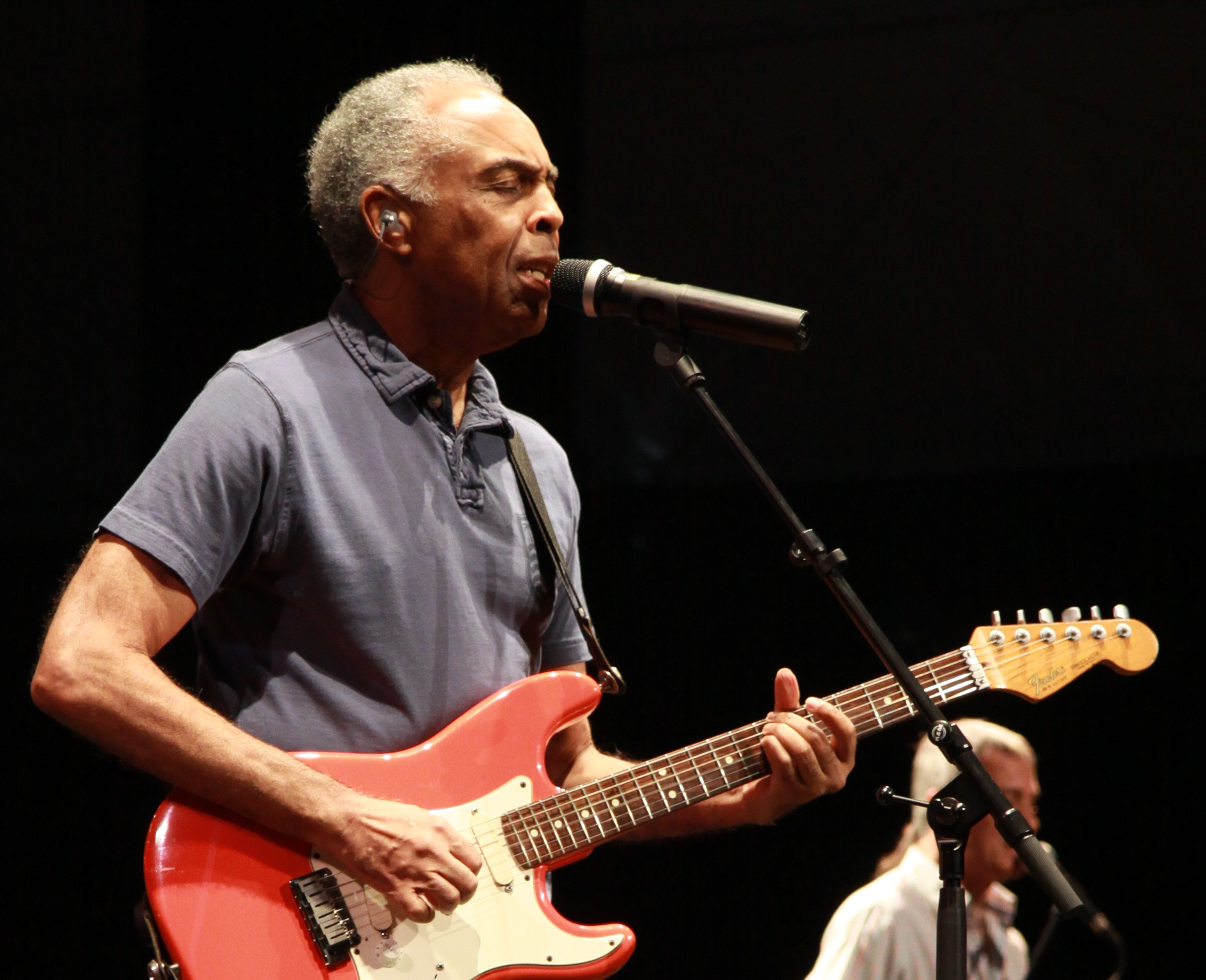 Gilberto Gil at the 'Festival de Cornouaille' in Quimper, France, in 2010.